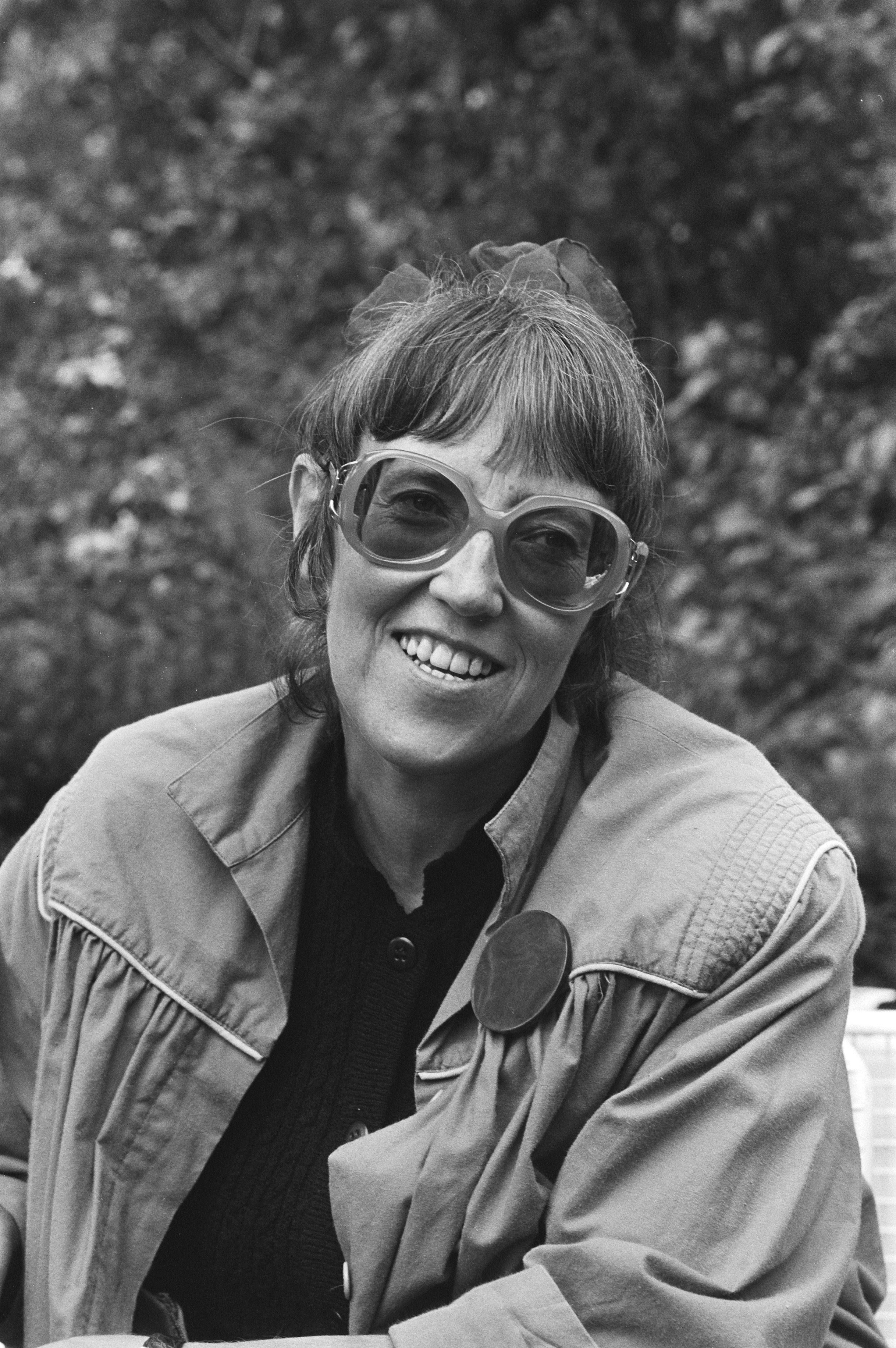 Dutch writer Imme Dros in 1989